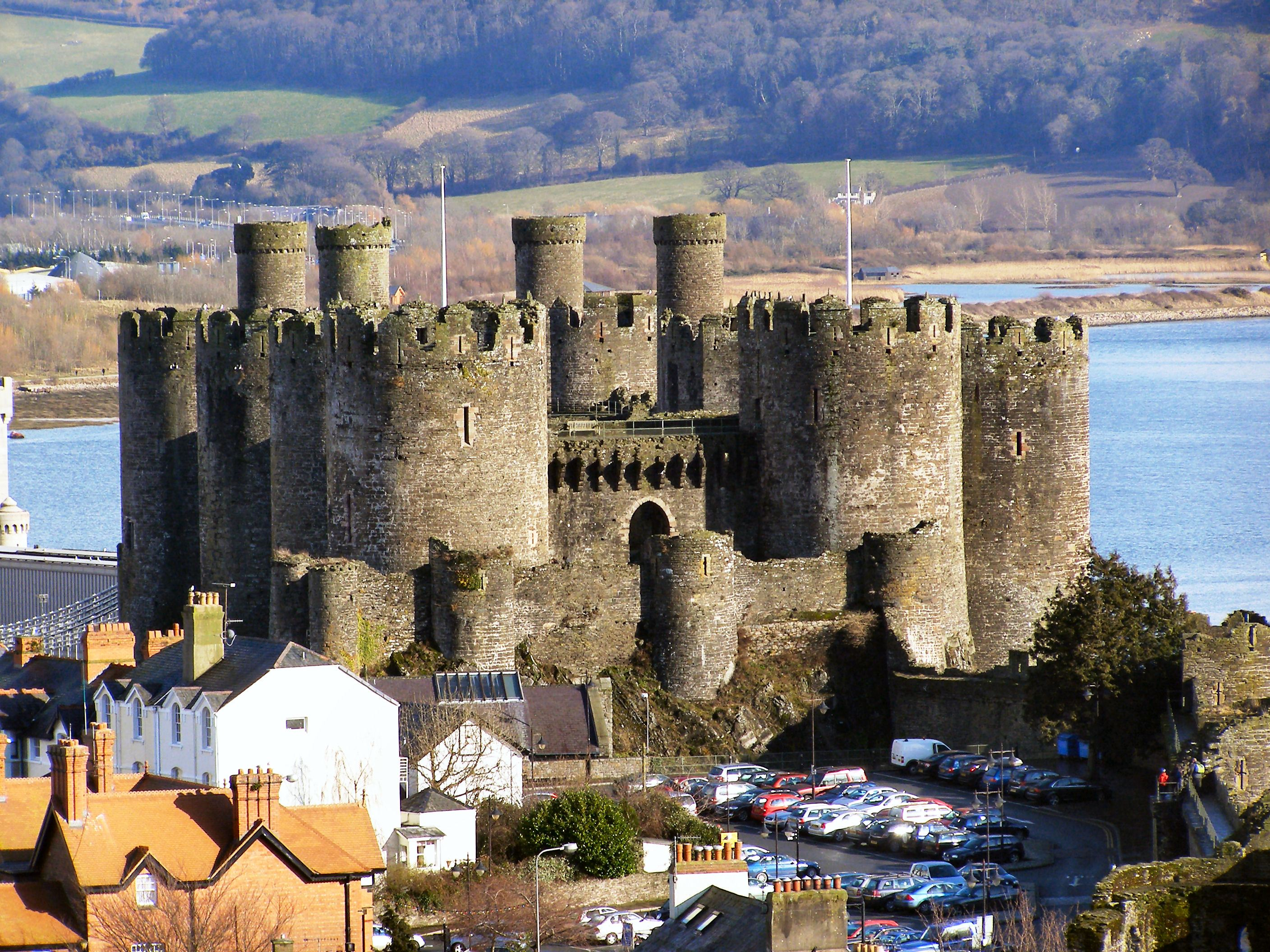 Conwy Castle and car park from Town Walls Viewed from the south west section of the walls.